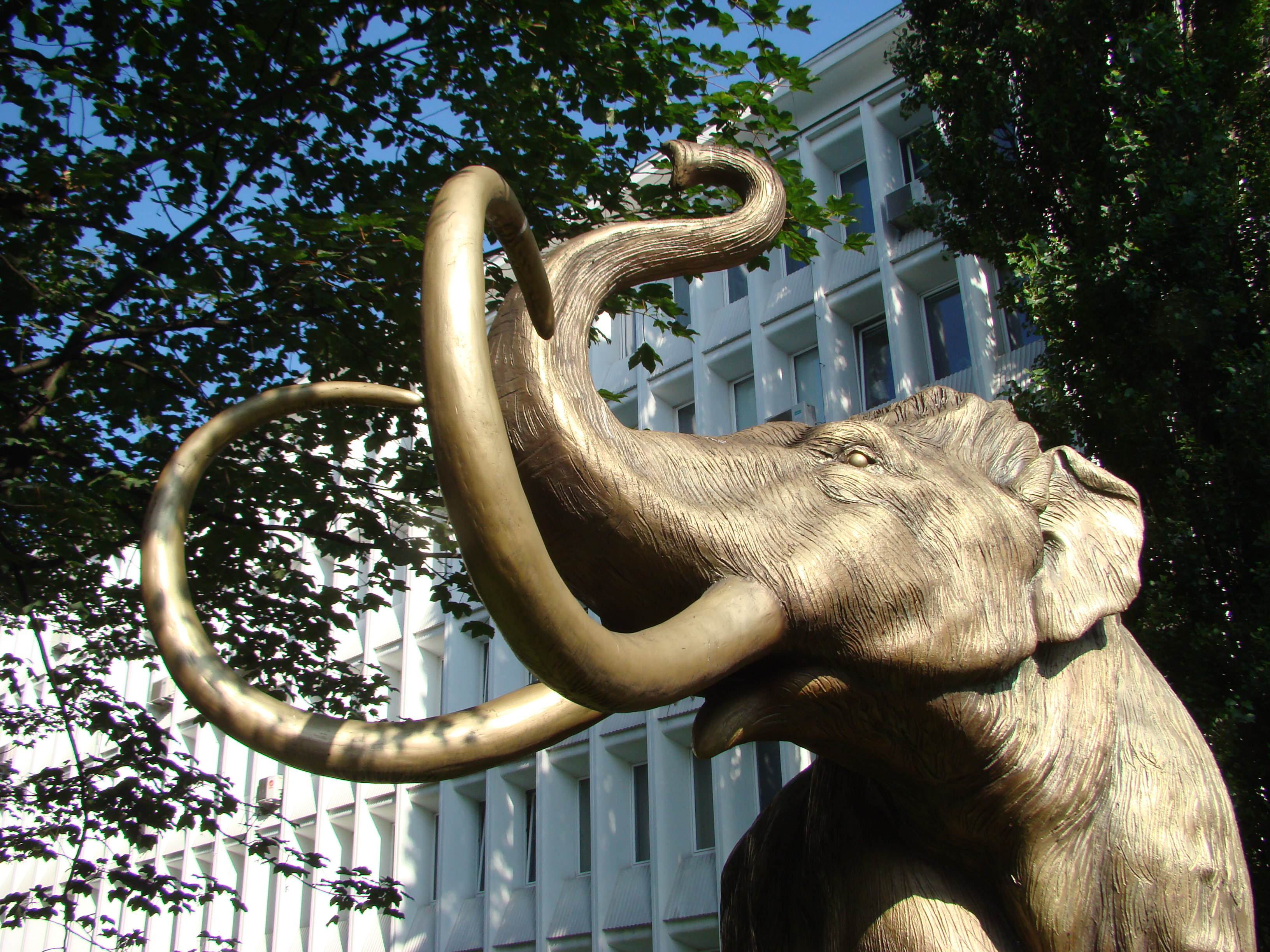 Mammoth sculpture, State Geological Institute, Warsaw